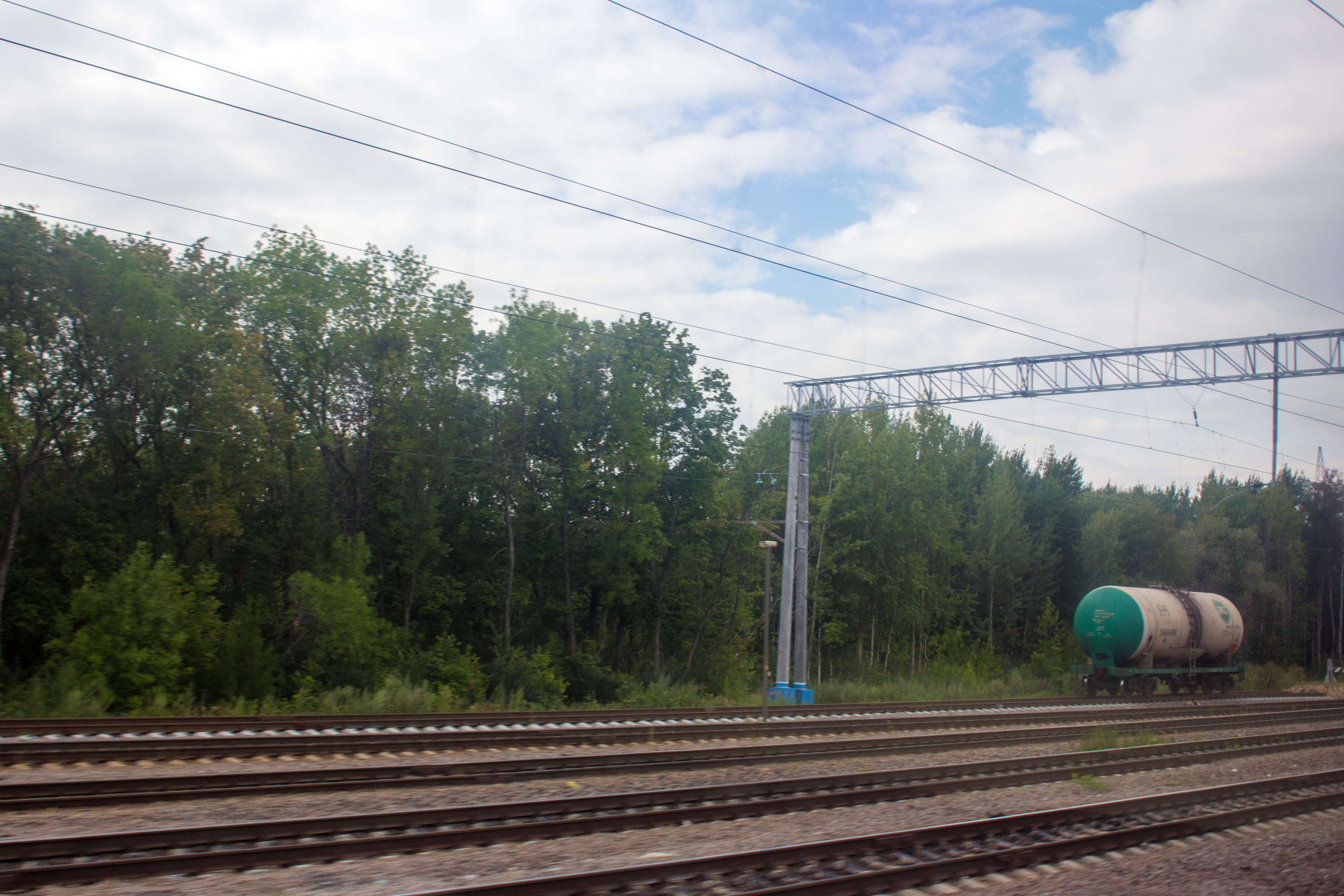 View from train window